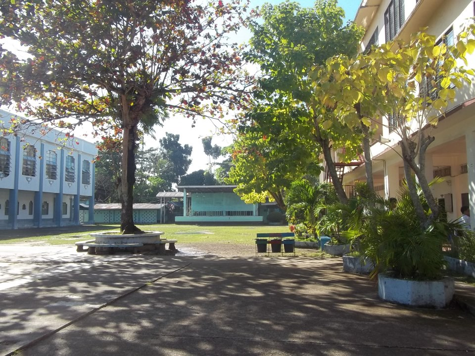 The high school quadrangle of SMAC in 2012-2013. The building on the left is the back of the administration building, known today as "Assumption Building" while the building on the left is the 1990's era annex high school building prior to its renovation. The small structure on the far center would be the new performance stage in 2014.